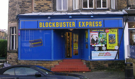 Blockbuster Express - Cold Bath Road